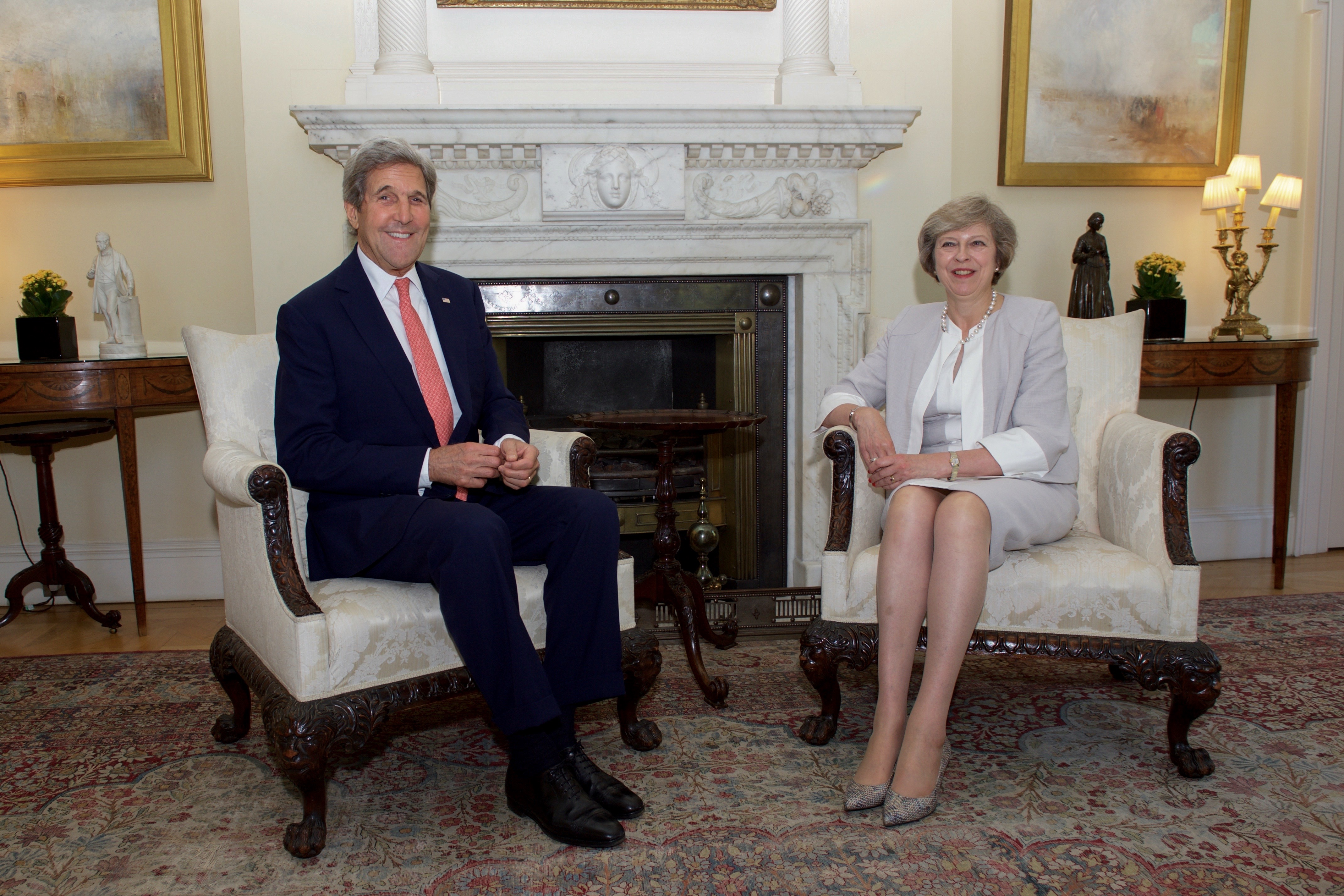 U.S. Secretary of State John Kerry sits with British Prime Minister Theresa May in the White Room No. 10 Downing Street in London, U.K., on July 19, 2016, before becoming the first U.S. government official to hold a bilateral meeting with newly installed leader. [State Department Photo/ Public Domain]